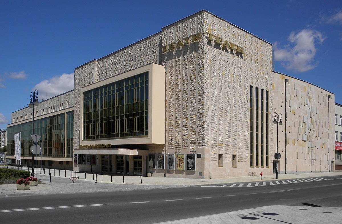 Jan Kochanowski Theatre in Radom, Poland